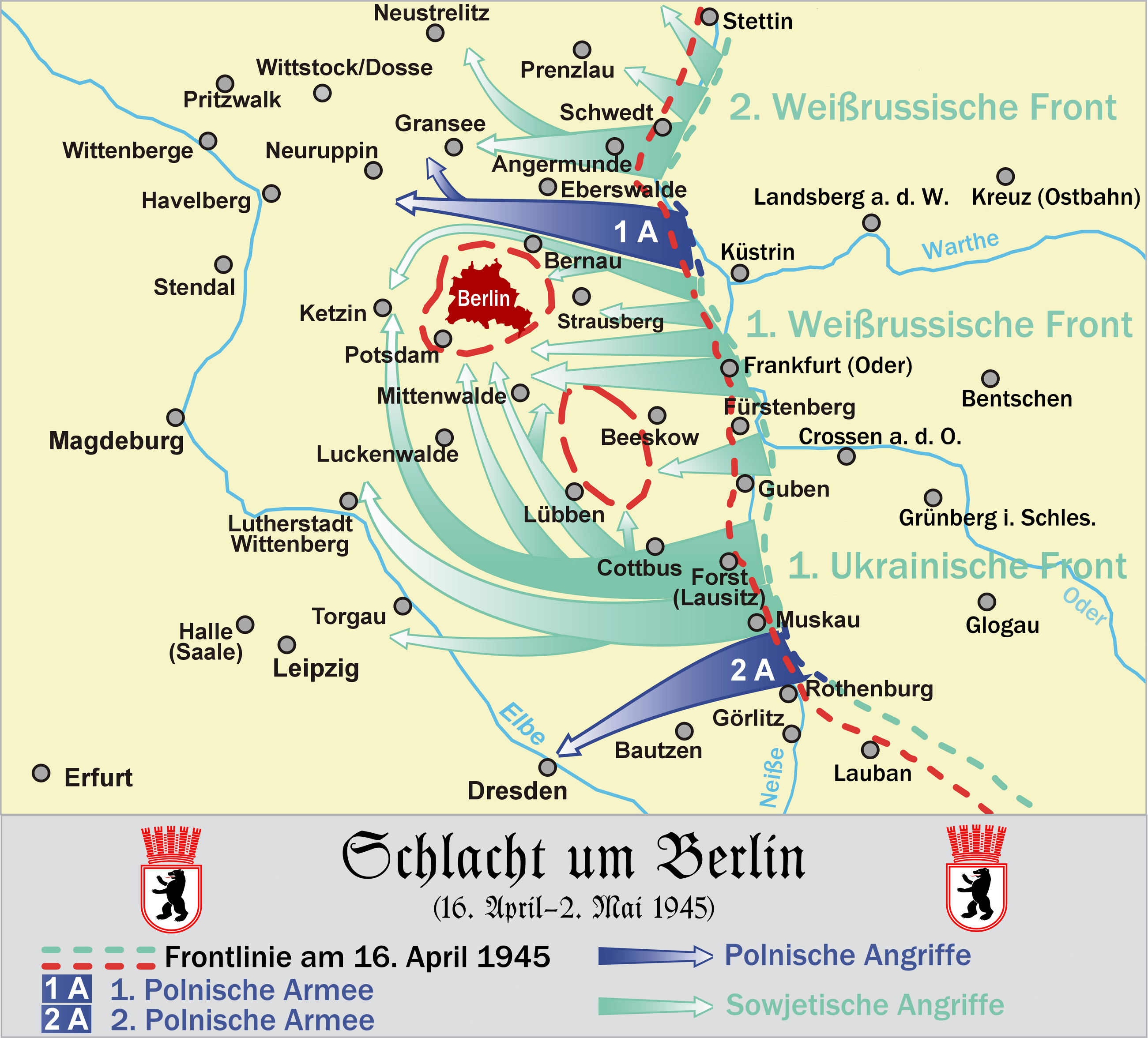 Map showing the Battle of Berlin.Other vesions:Polish: Image:Operacja berlin 1 1945.png